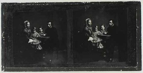 Self-portrait of Niels Willumsen with family: Caroline Wilhelmine Willumsen, née Tretau (1818-1902) and two daughters Ida and Marie.